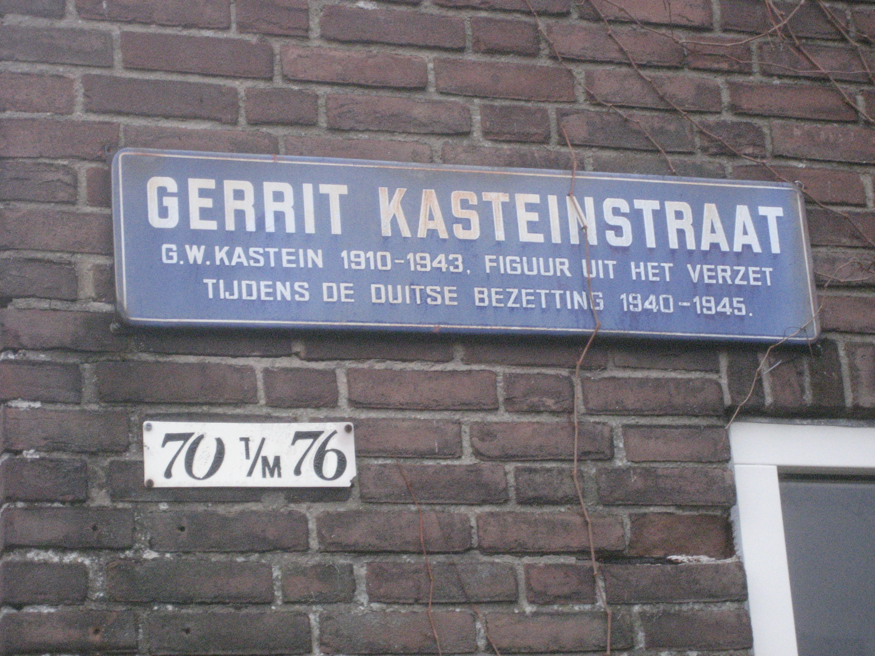 Gerrit Kasteinstraat, Leiden (the Netherlands)